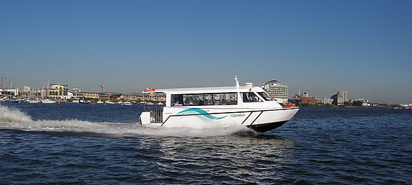 Aquabus water taxi in Cardiff